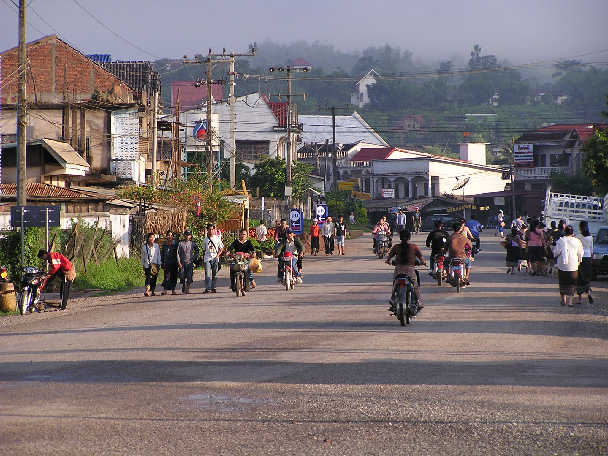 A street scene in Oudomxay Town (also Muang Xay) in Northern Laos